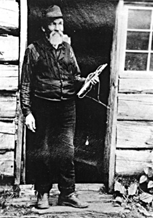 Scanned and archived at where it was marked as Public Domain.